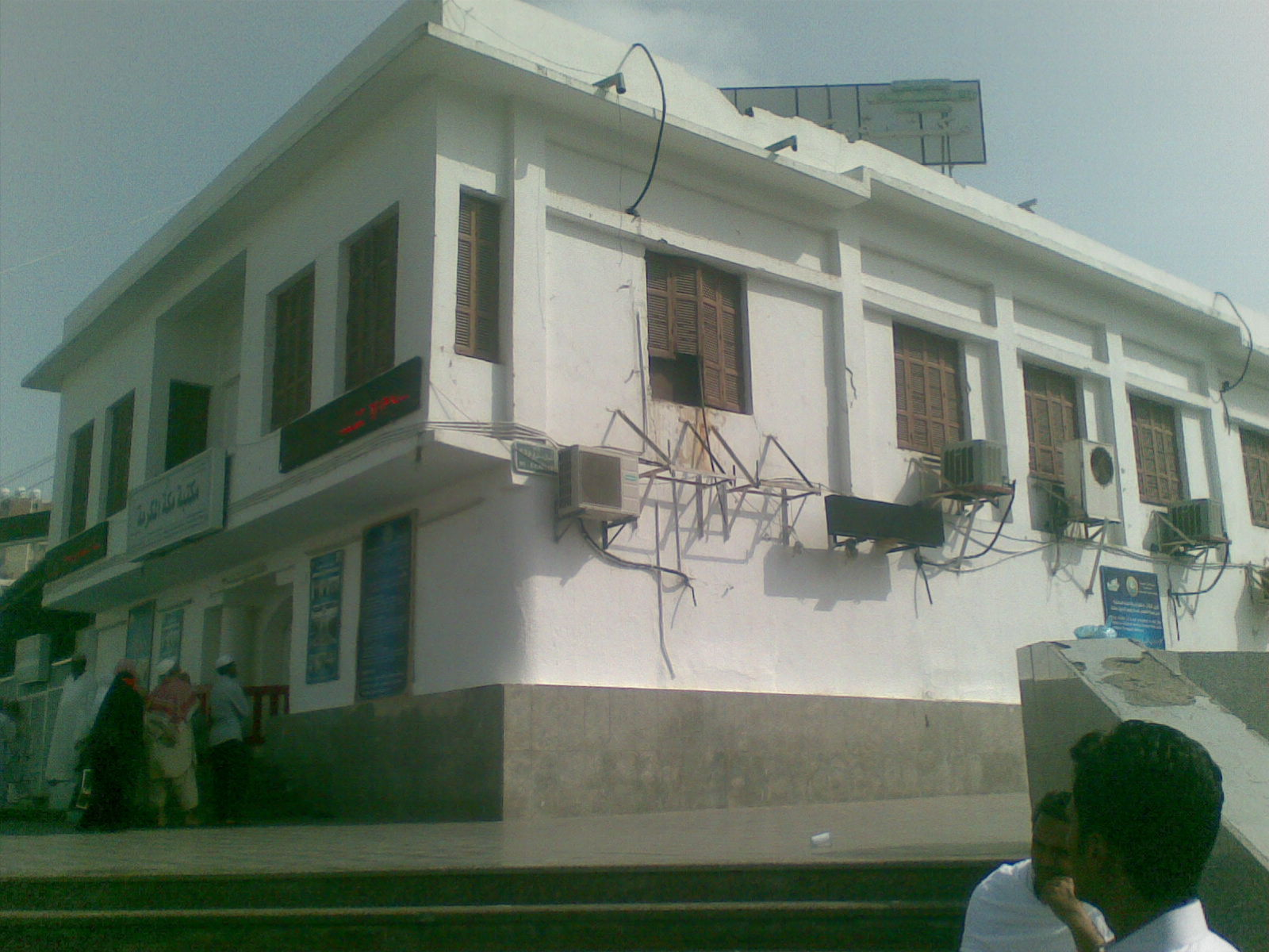 Prophet's home in Mecca